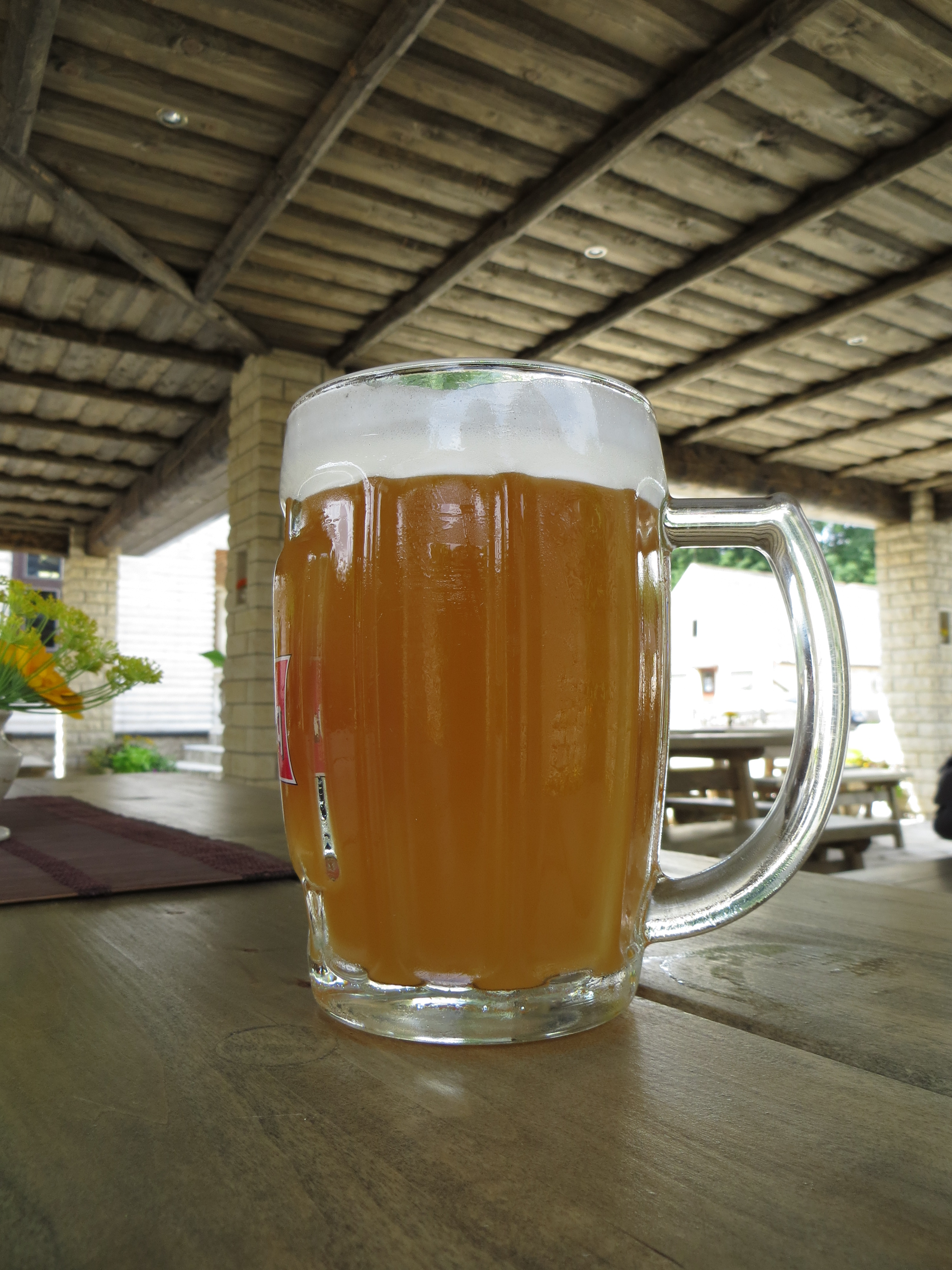 Glass of Pihtla taluõlu, a farmhouse beer from Saaremaa, Estonia